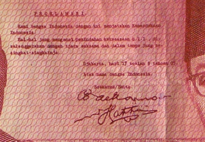 The proclamation of independence on Indonesian Rupiah (IDR) banknote, Rp100000.